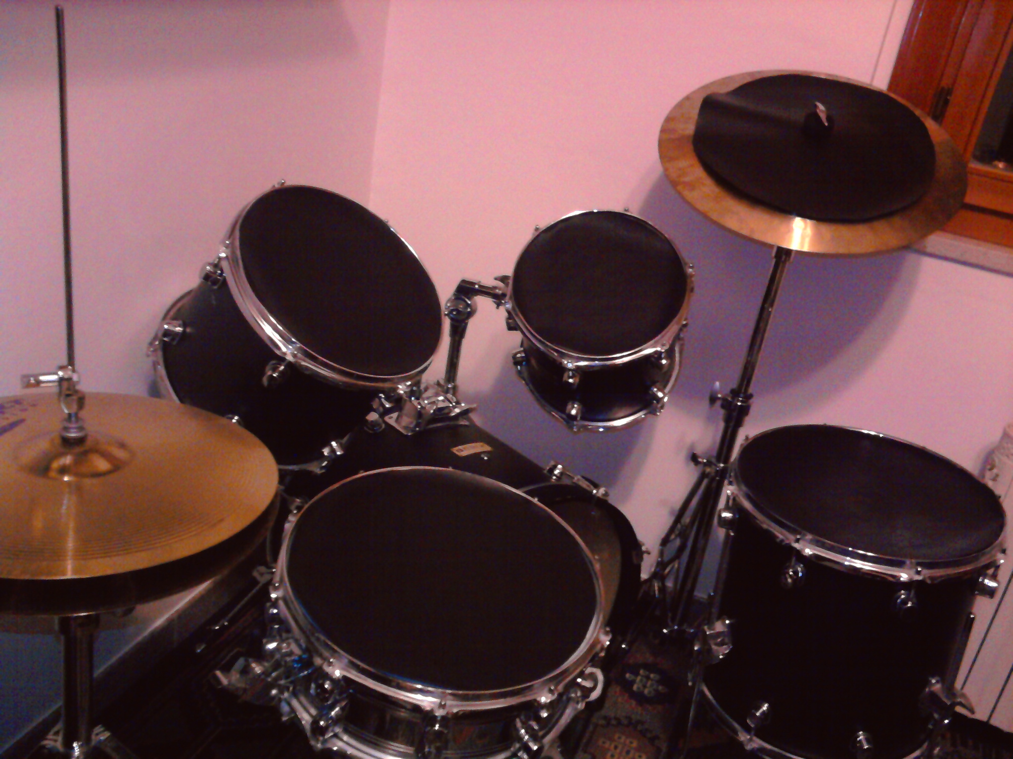 a drums set.